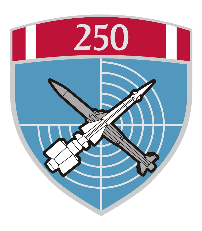 250th Air Defense Missile Brigade Distinctive Unit Insignia